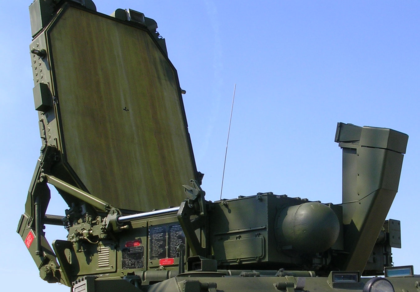 1L259 radar on MAKS-2005 airshow